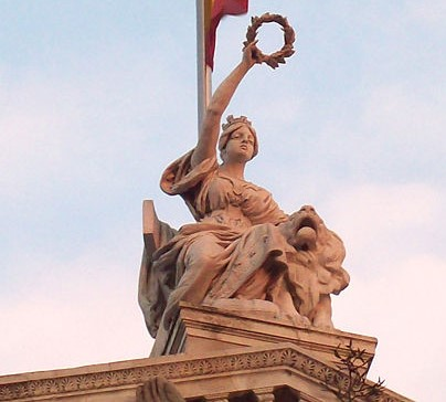 An allegory of Hispania, who, with a laurel wreath, symbolically awards the works of ingenuity from her sons.